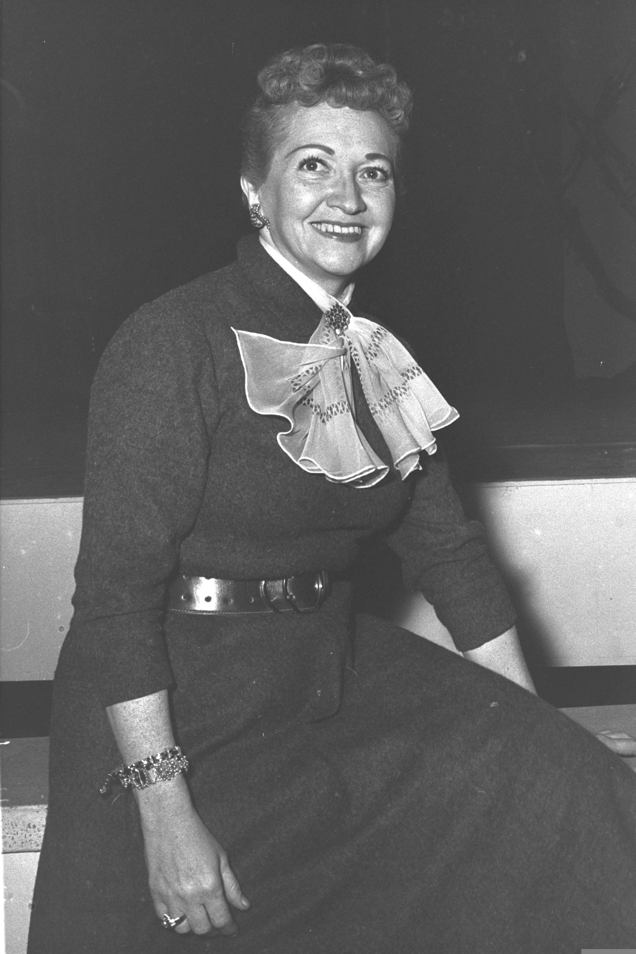 Mrs. Edis de Philippe artistic director of the Israel National Opera.